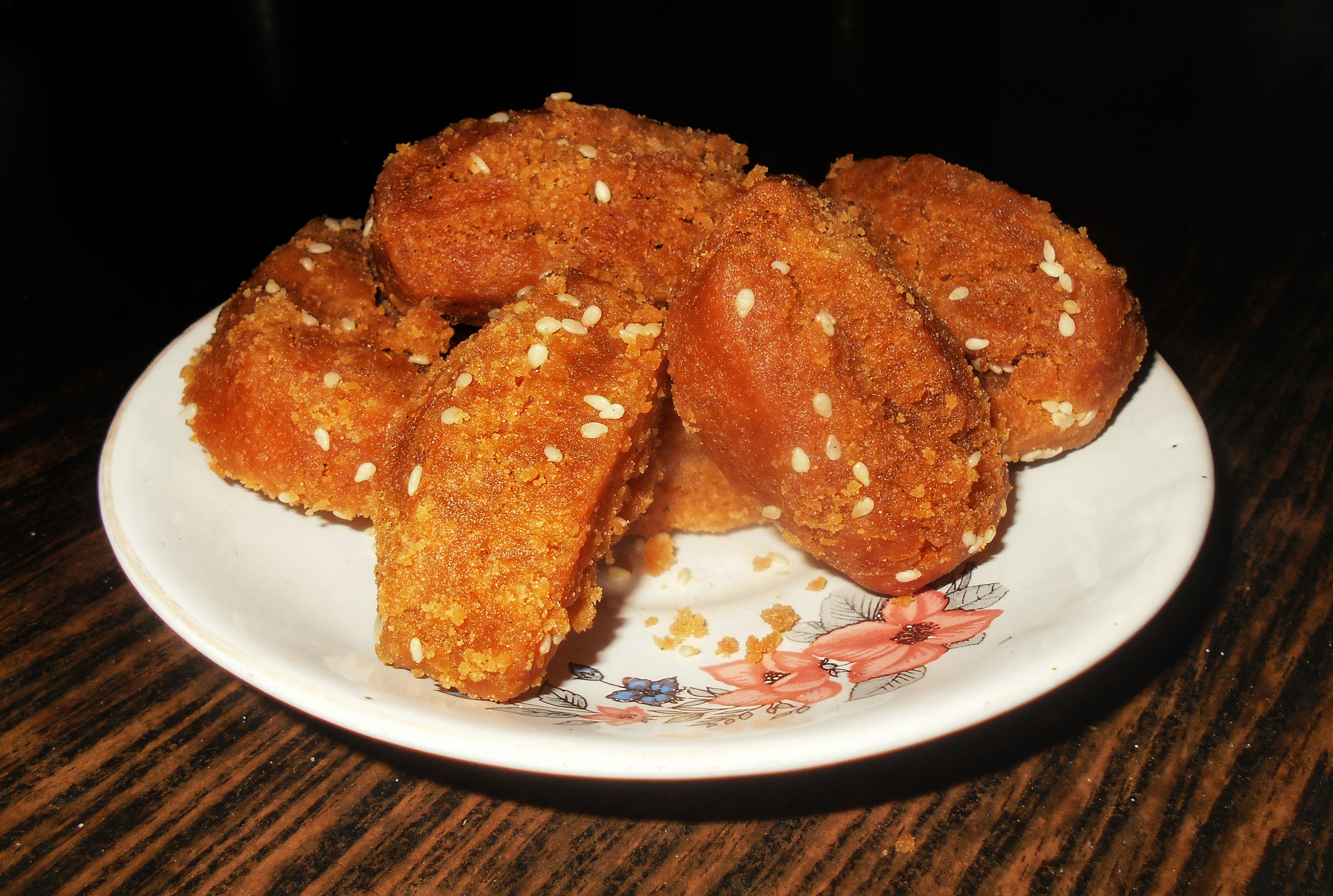 Goja of Burdwan